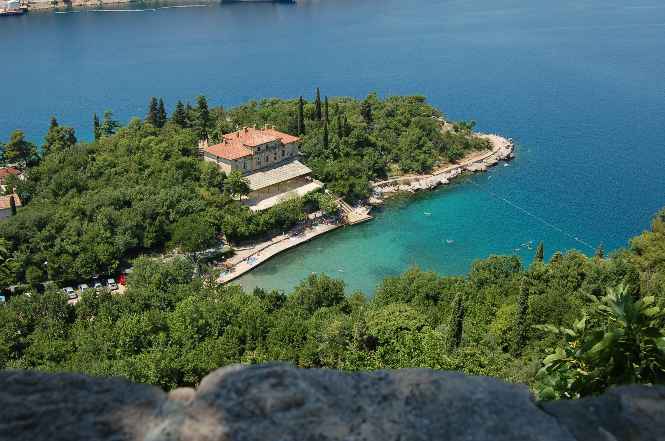 Beach and Učka Hotel at Omišalj, island of Krk, Croatia